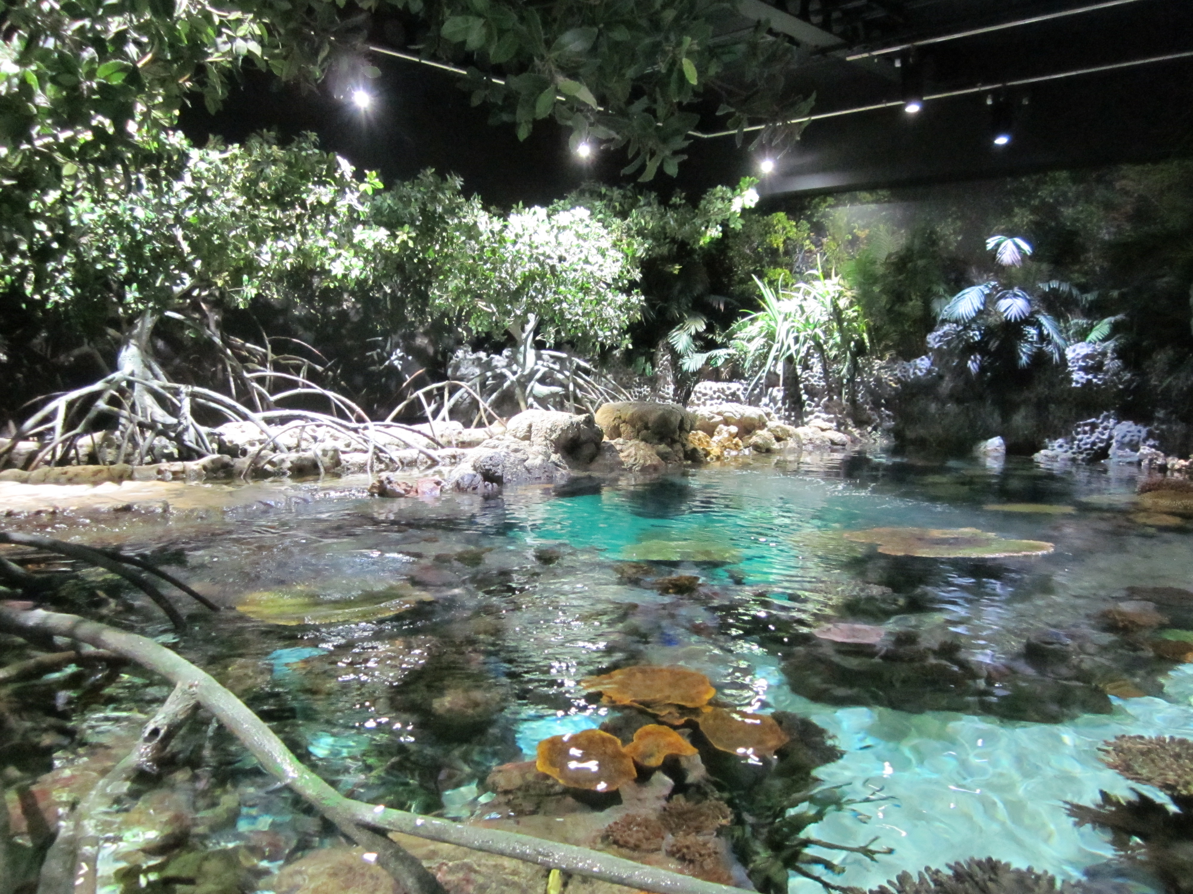 Lagoon aquarium in The Deep, Kingston upon Hull. Looking down on the surface. There are also windows viewing underwater.